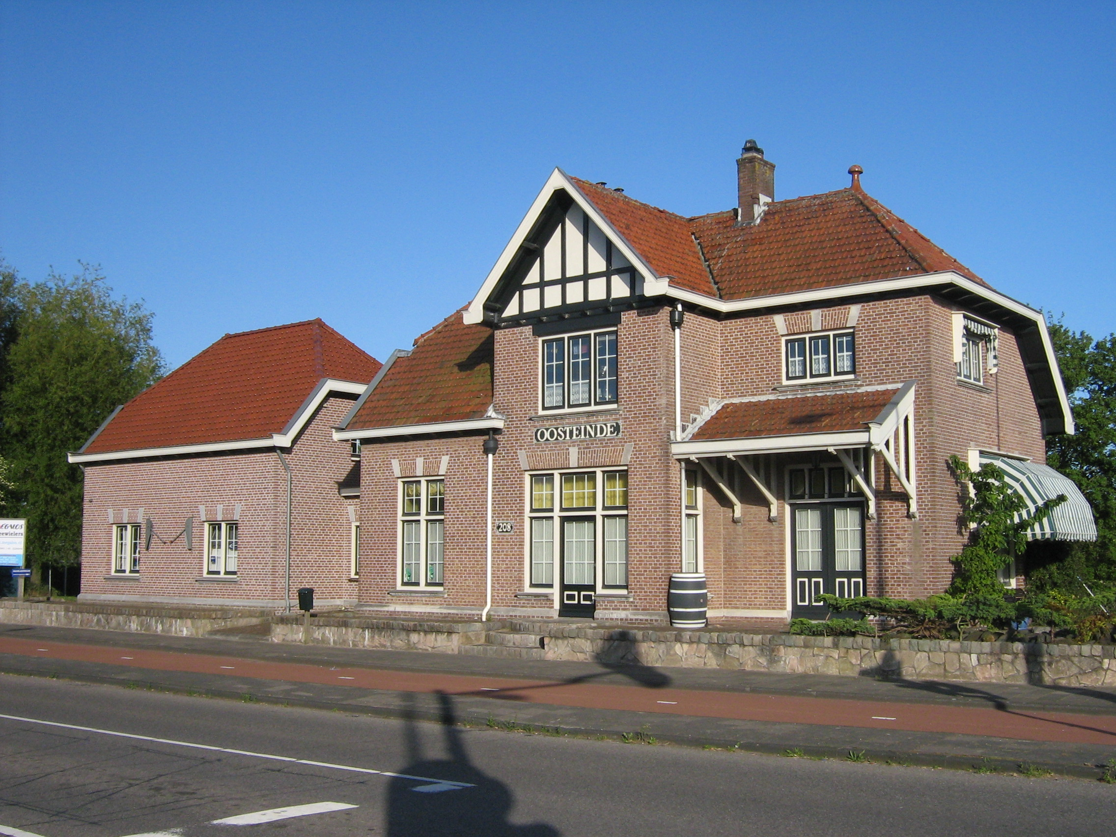 Former railway halte Oosteinde or Aalsmeer Oost at 208 Aalsmeerderweg, Aalsmeer, the Netherlands.